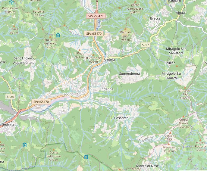 This map may be incomplete, and may contain errors. Don't rely solely on it for navigation.